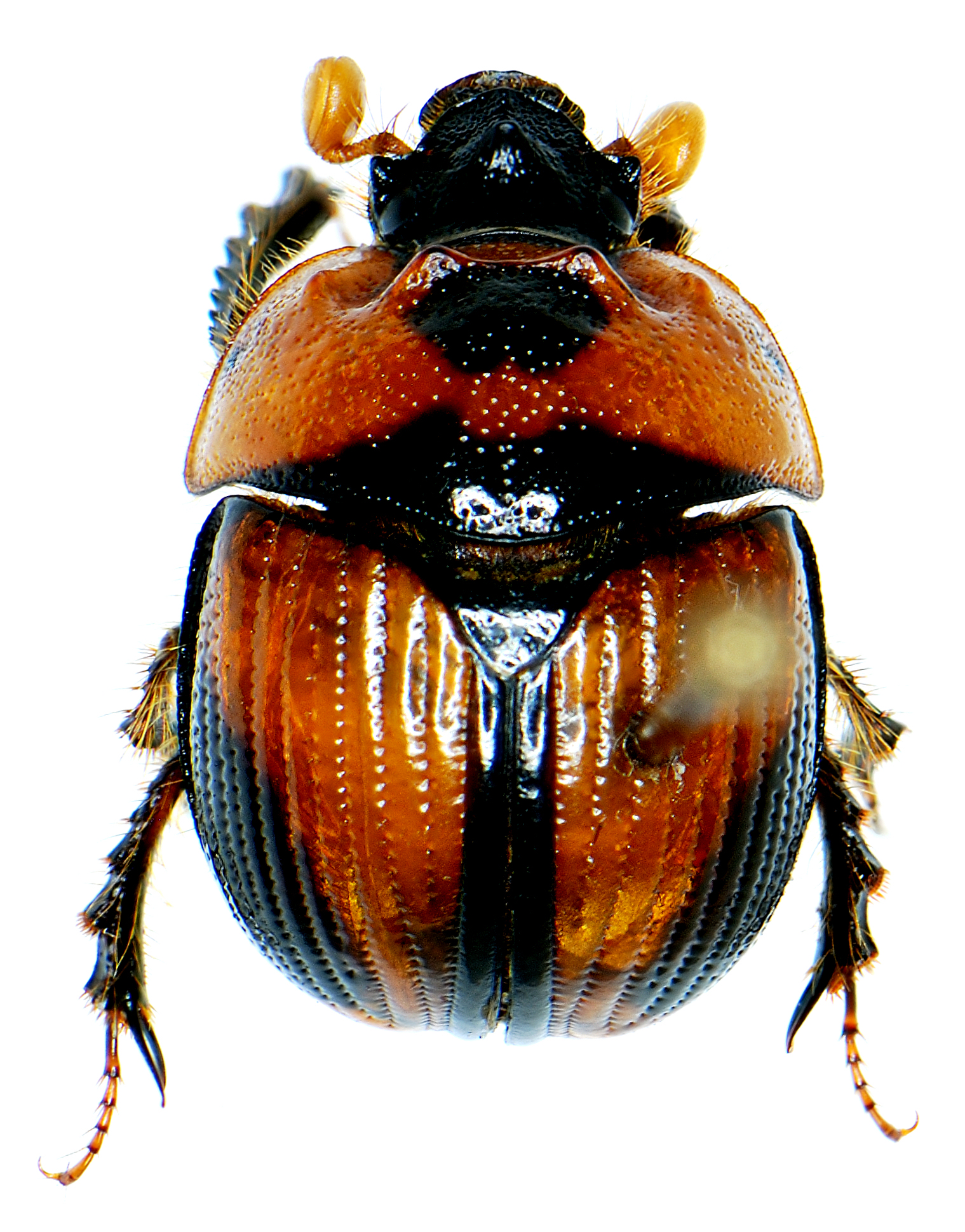 Specimen of Bolbocerosoma tumefactum (Beauvois), a rarely encountered relative of scarab beetles. This individual was collected in USA: Connecticut: Middlesex County: Killingworth, in a flight intercept trap set among mosses, between mixed woods (red maple, poplar, juniper et al.) and a blueberry patch at edge of a hayfield, 02-Jun to 04-Jul-2002, collector M.K. Oliver, in collection of same.